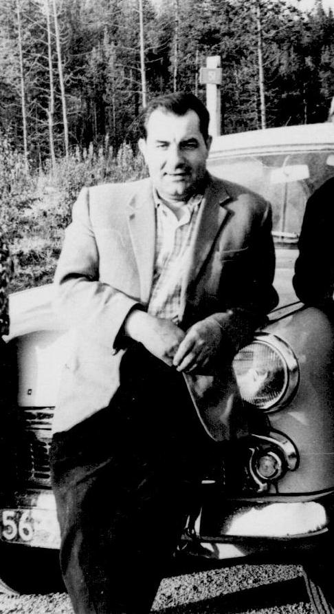 1967_Direktor_Tuloma_farm